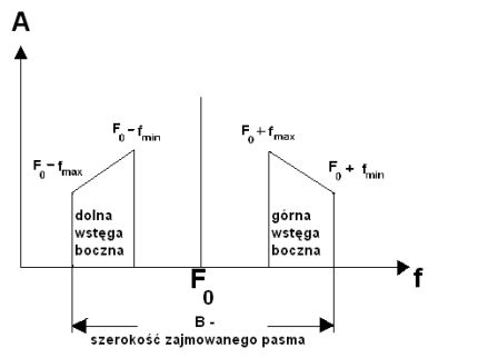 Sygnał zmodulowany